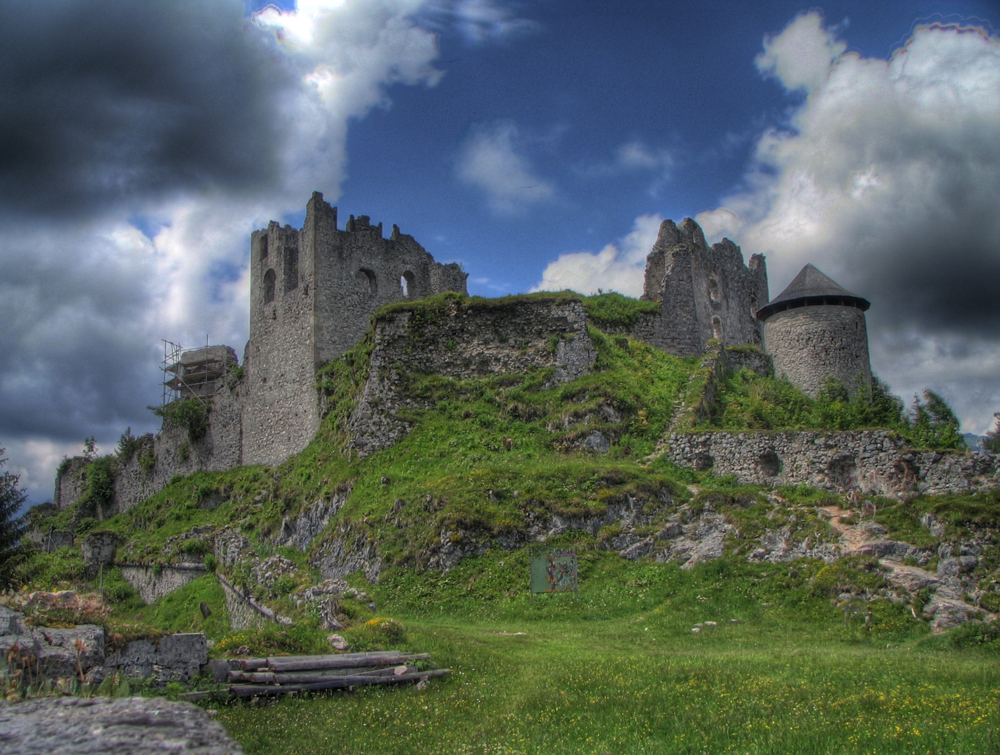 HDR-Image Castle Ehrenberg near Reutte in Tyrol, Austria